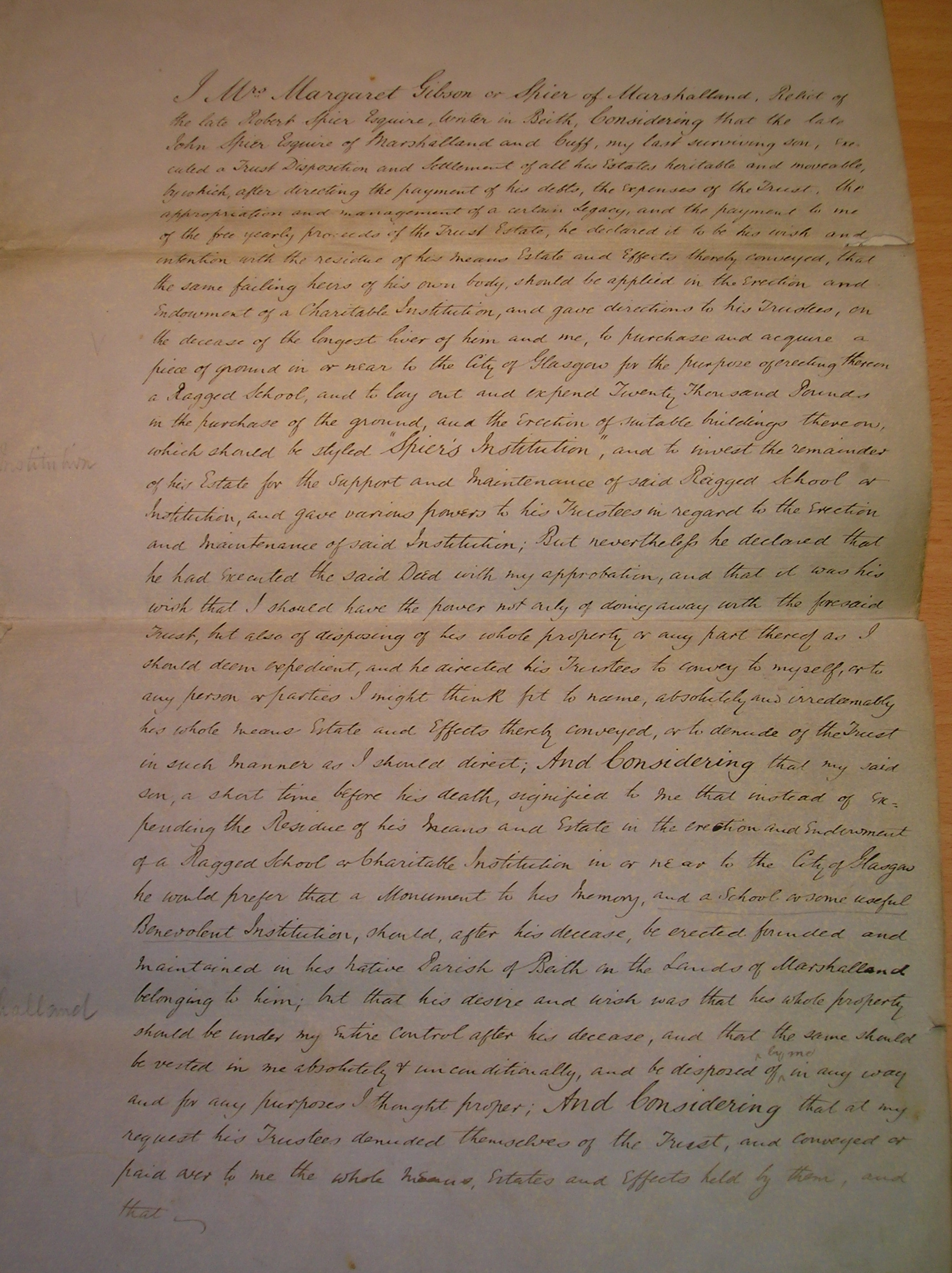 Spier's Institution feu disposition - handwritten copy. 1887.